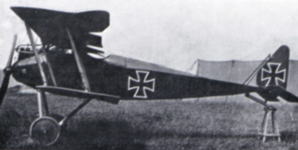 Halberstadt D.II - allegedly that of Boelcke German photograph - original provenance unknown - taken 1916